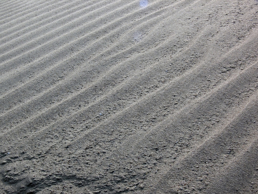 ripple marks on a sanbd dune